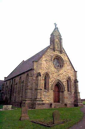 Holy Trinity Church, Tunstall in North Yorkshire